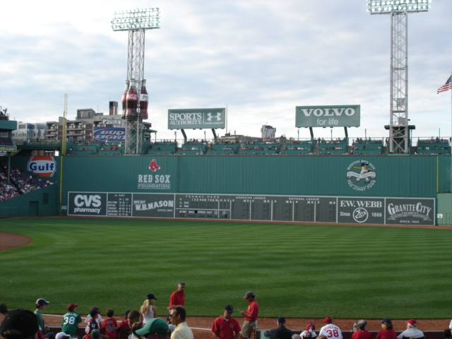 Image of the Green monster, taken personally on 26 August 2006. 13:35, 27 August 2006 . . Badlydrawnjeff . . 640×480 (153,137 bytes)